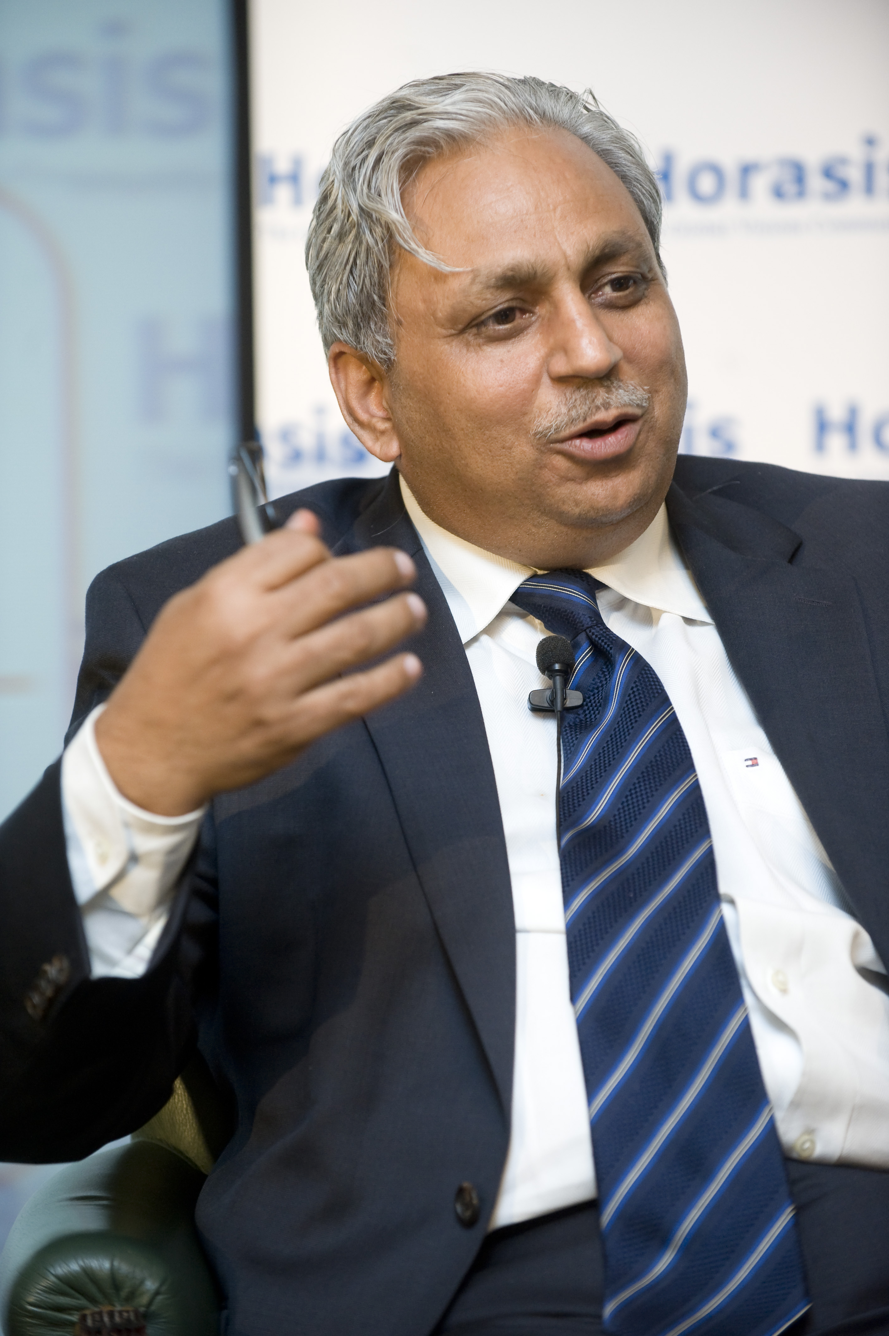 CP Gurnani, Chief Executive Officer, Mahindra Satyam, India, summarizing the results of the 2010 Horasis Global India Business Meeting